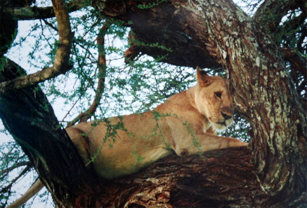 Tree Climbing lion,Panthera leo in Tarangire National Park, Tanzania. The image is a digital picture of my old print.